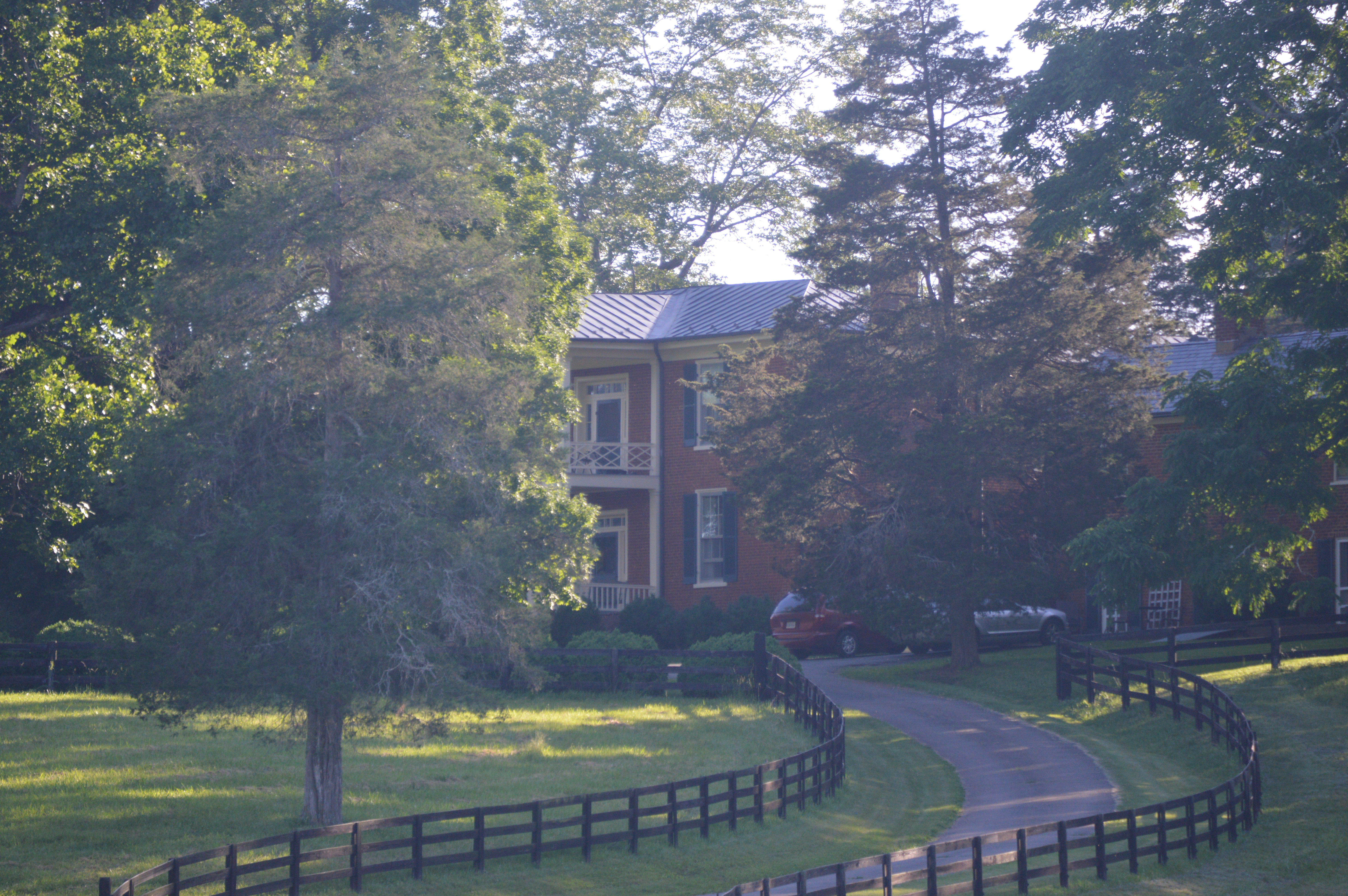 Front of the Kenmore Farmhouse, located on Kenmore Road northwest of Amherst in Amherst County, Virginia, United States. Built in 1856, it is listed on the National Register of Historic Places.